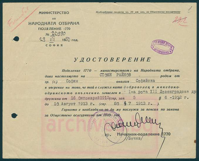 Certificate of Stoyan Raynov for service in the MAVC